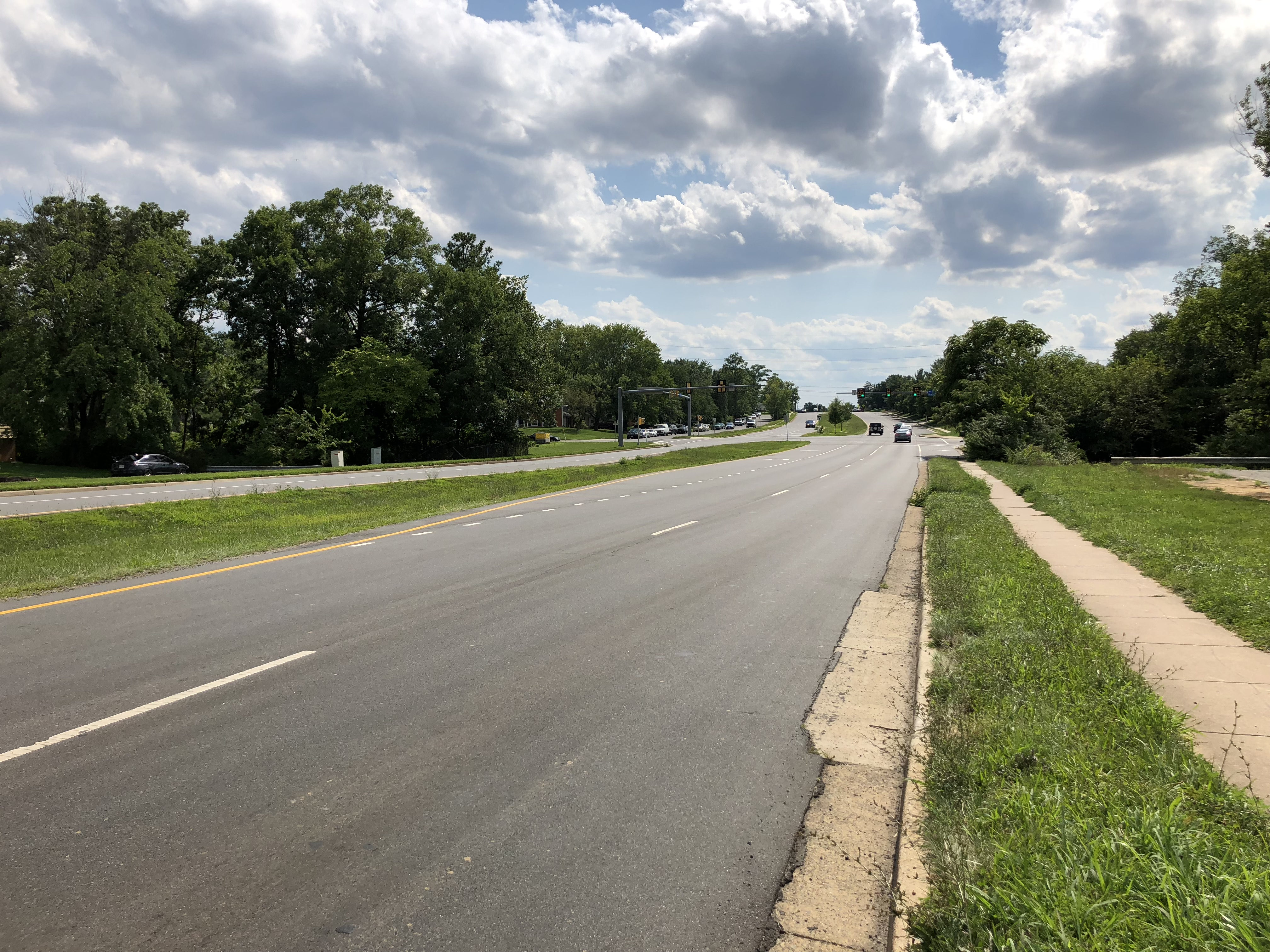 View west along Virginia State Route 846 (Sterling Boulevard) at Virginia State Route 1419 (Poplar Road) in Sterling, Loudoun County, Virginia